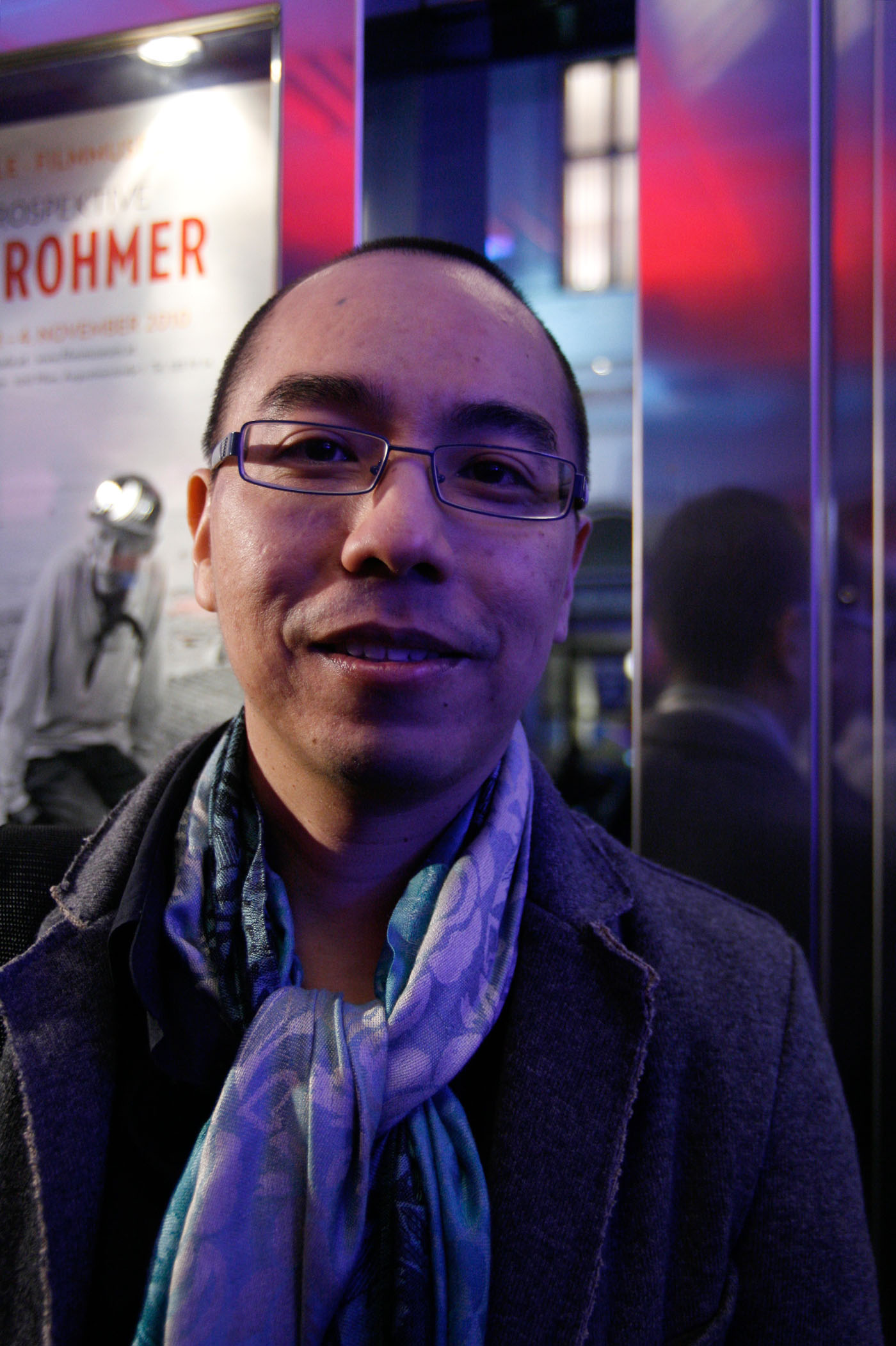 Film director Apichatpong Weerasethakul at the opening of the Vienna International Film Festival 2010.